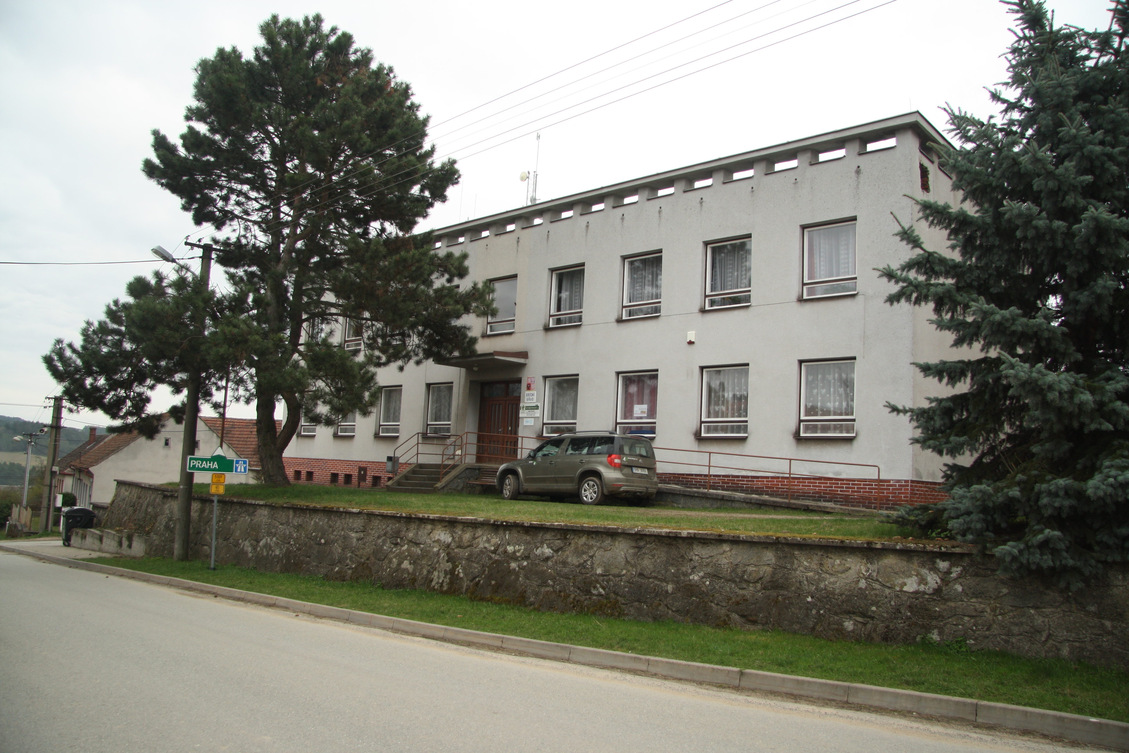 Municipal office and Museum in Tasov, Žďár nad Sázavou District.